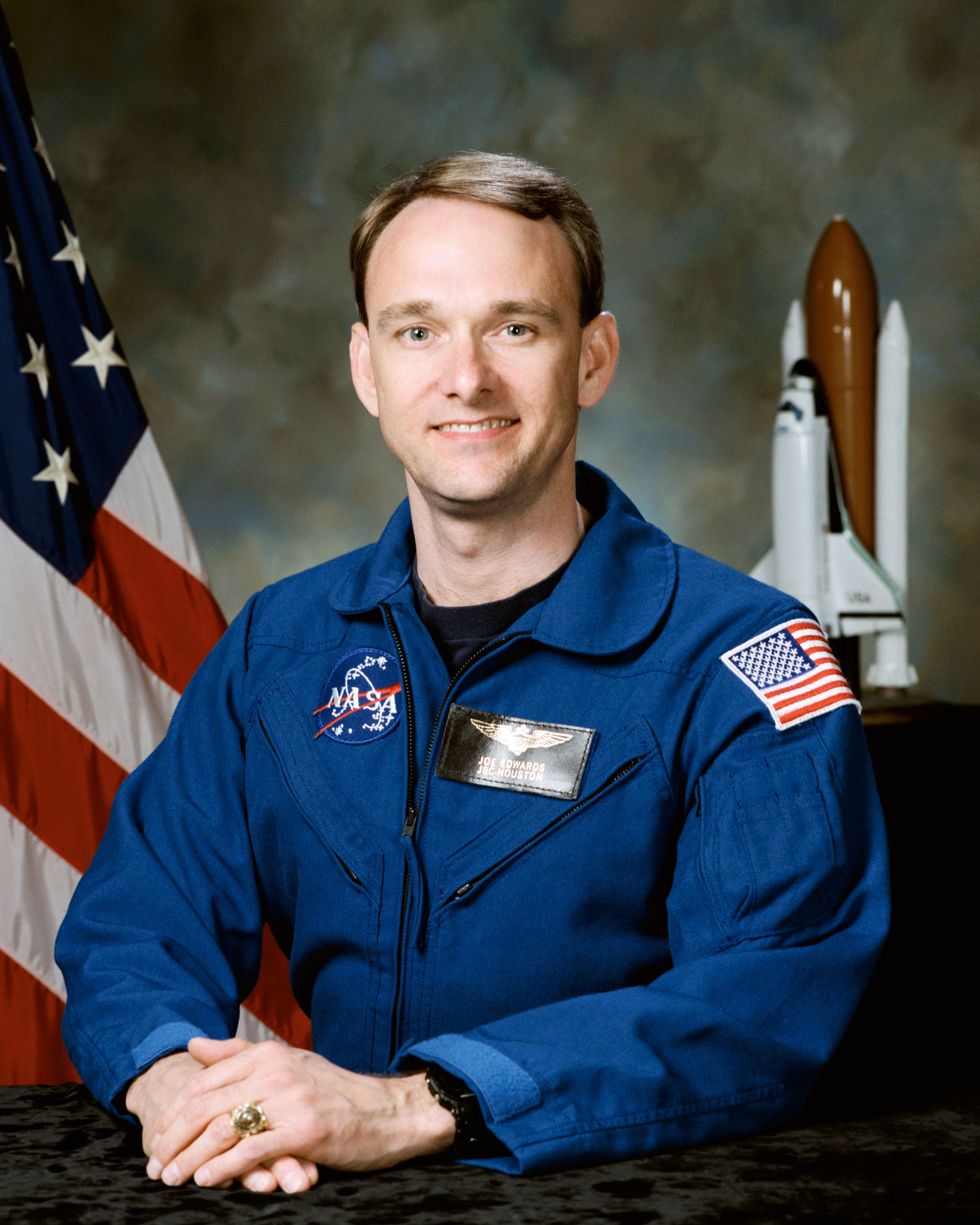 portrait astronaut Joe Edwards